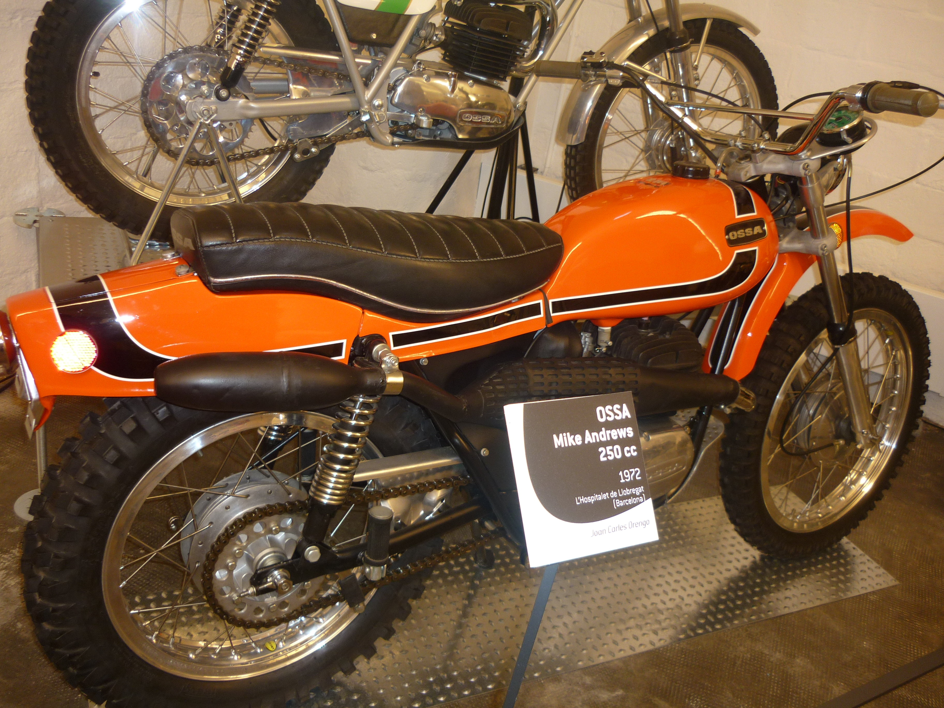 OSSA AE-72 250cc (1972), AKA Enduro America.Museu de la Moto de Barcelona (Catalonia).